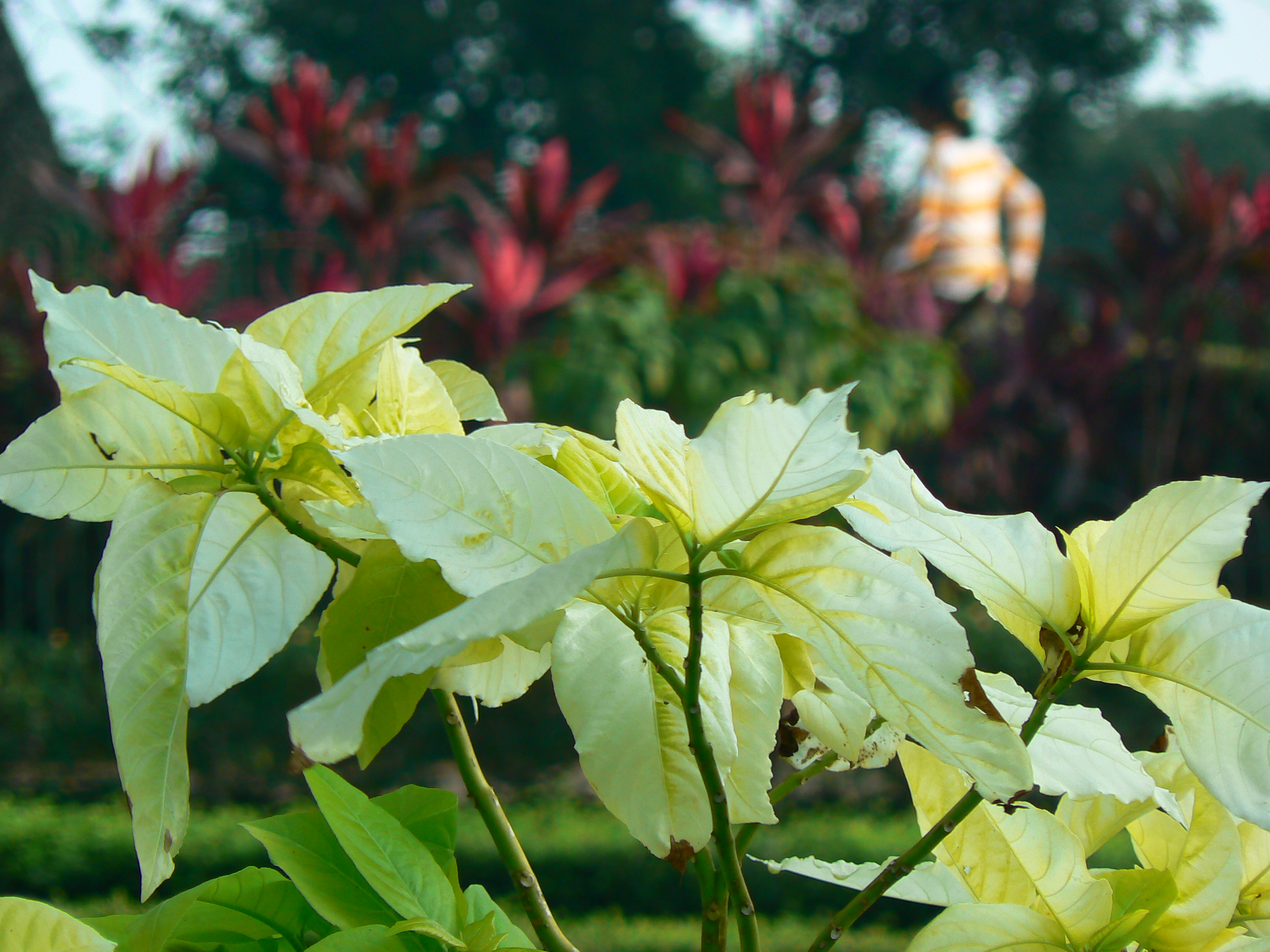 Common name: Lettuce tree, Cabbage tree, Hawaiian Papala kepau, Sule sappu, Lachaikottei Botanical name: Pisonia alba Synonym: Pisonia brunoniana Family: Nyctaginaceae (four o'clock family) - [ (nyk-taj-i-NAY-see-ay) The Nyctaginea (four o'clock) family; (from the Greek nyx or nyxtos, meaning night-blooming) ] Origin: Andaman Islands It is a small, evergreen foliage tree or a large shrub. It reaches a height of four to seven meters. The pale green leaves are long and pointed and about 10-12" in length. They are of a pleasing pale green colour. Planted in good sunlight, the leaves may acquire a light yellow color, which looks nice and unusual. The plant belongs to Nyctaginaceae family of bougainvillea and four o'clock plant. But, unlike the two other family members, is grown not for its flowers but for its leaves. The leaves are used by natives as cattle feed. They also have medicinal properties and cooked and eaten when suffering from rheumatism or arthritis. The young leaves come in handy as a leafy vegetable. The lettuce tree can be grown as a large shrub. Being a coastal tree it does not thrive as well on land as it does on the east and west coast of the USA. The plant grows well in any soil, but being a littoral plant it shows preference for sandy soil. It is propagated through cuttings, which root easily in sand. Pisonia alba can be planted singly in large compounds to make it grow into trees or planted closely and trimmed regularly to make a pleasant looking hedge. The tree rarely flowers. The flowers are small, green and inconspicuous. The leaves are also carminative (expels flatulence). Leaves coated with eau de cologne are used to rub on elephantoid swellings. Courtesy: - Top Tropicals - Dave's Garden Note: Identification attempted; may not be accurate.